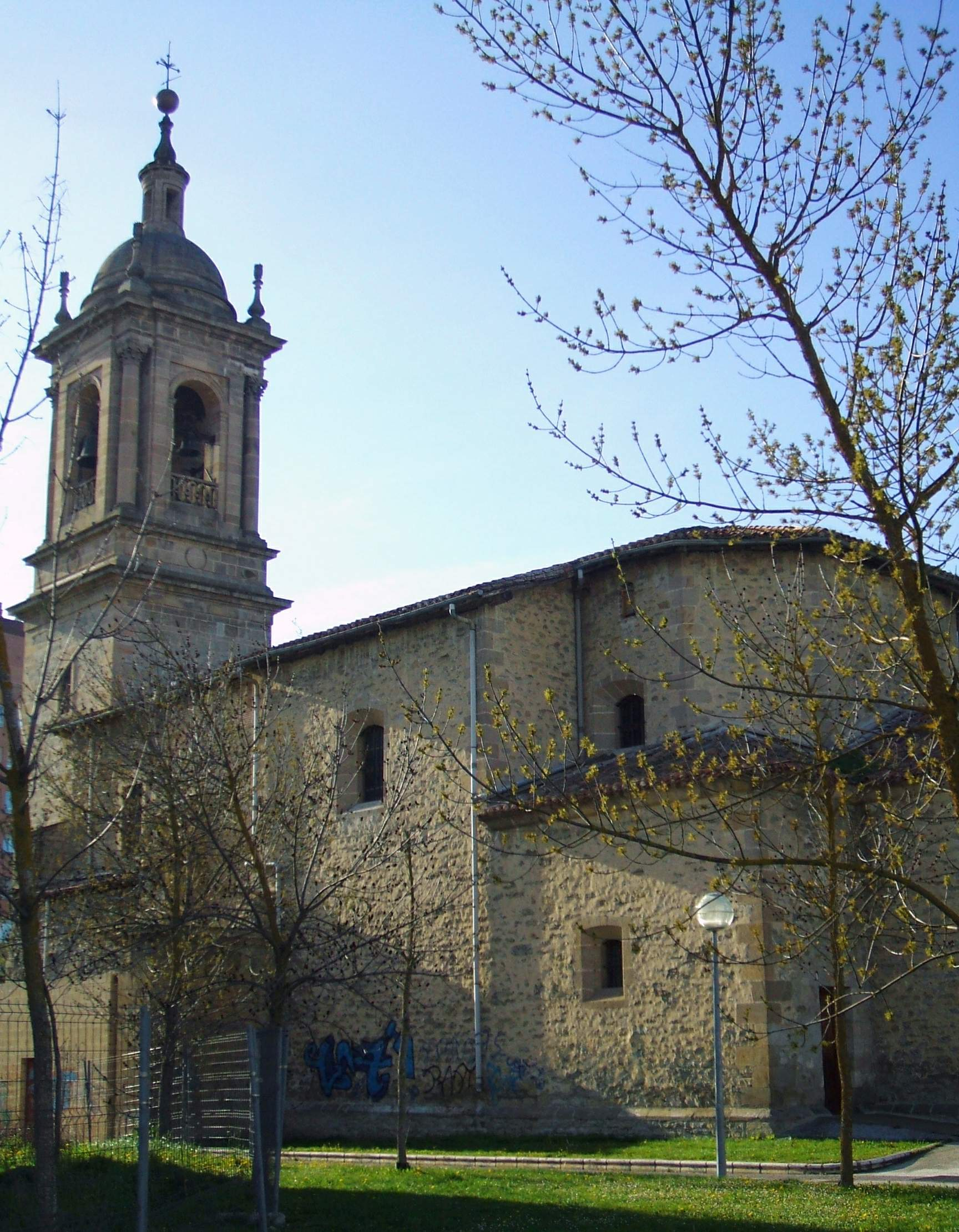 Iglesia de San Vicente de Arriaga, en Vitoria-Gasteiz (País Vasco, España)